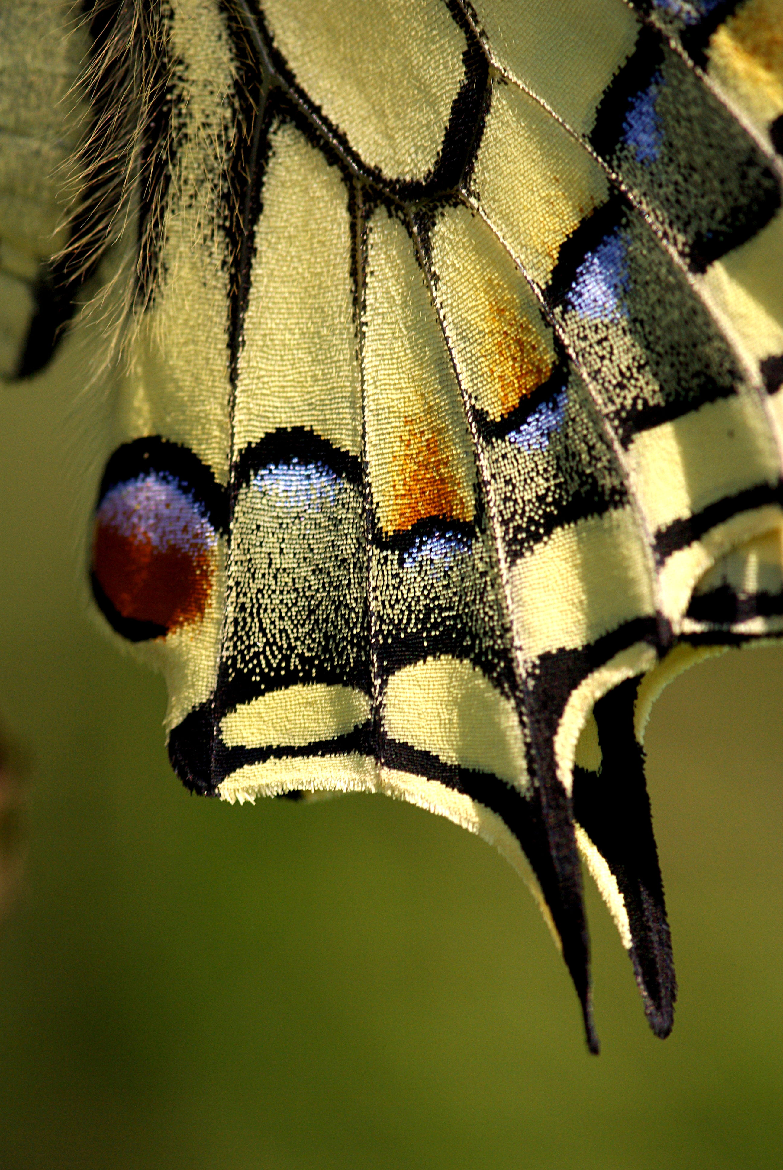 Détail wing of Papilio machaon, Normandie France